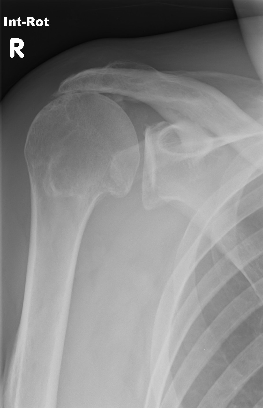 x-ray of rotator cuff tear